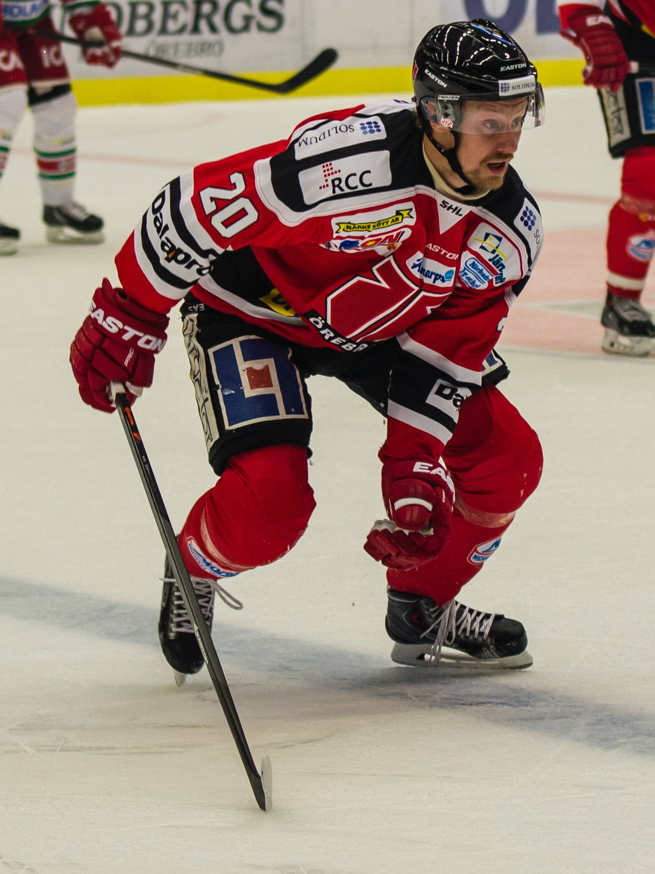 Marcus Weinstock playing for Örebro HK in SHL (Sweden's highest league) against MODO Hockey in Behrn Arena 2013-10-05.